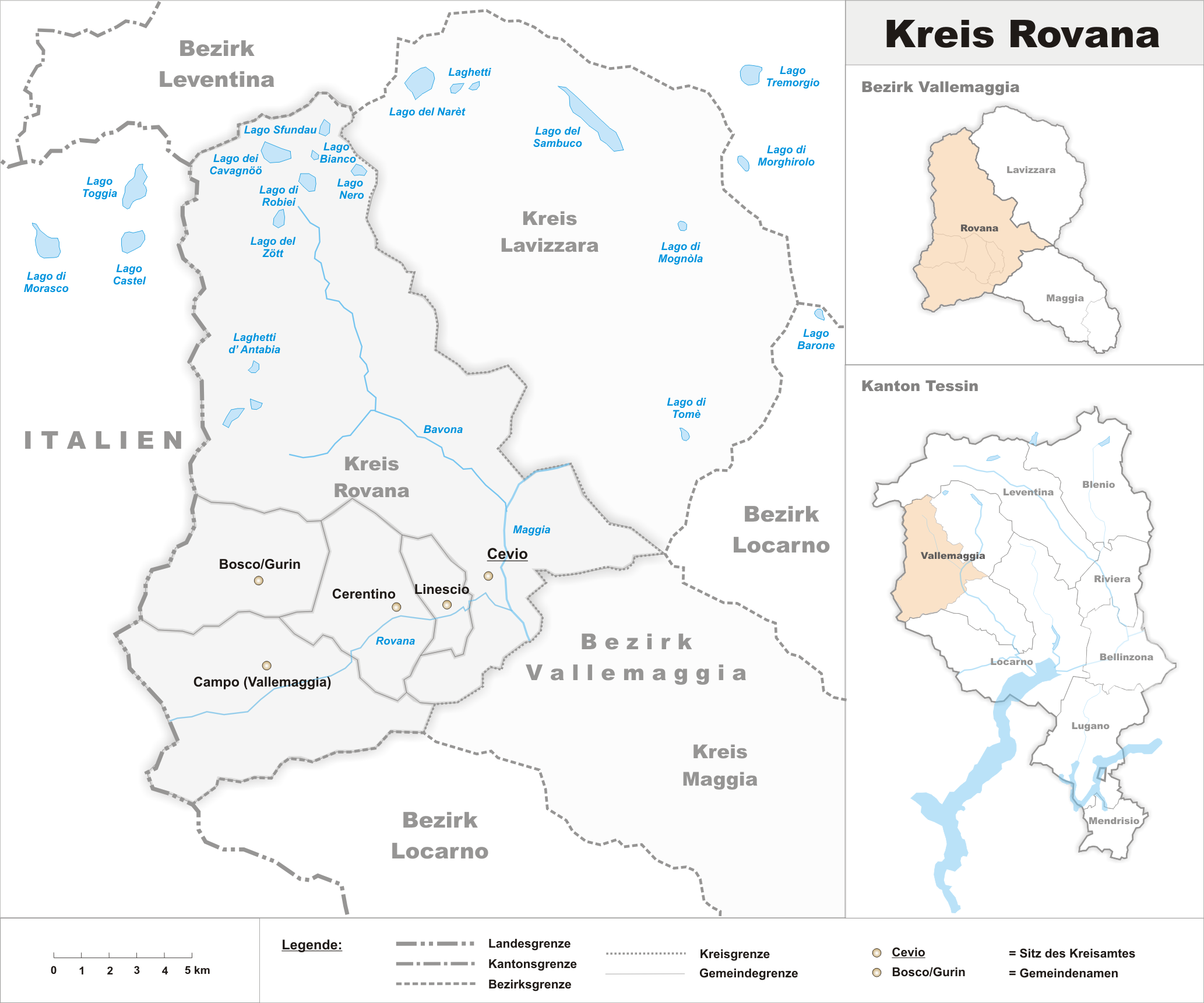 Municipalities in the circle of Rovana